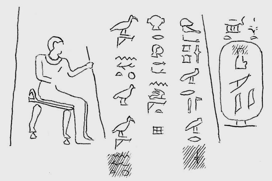 Drawing of an ancient Egyptian graffito depicting the ancient Egyptian "Nomarch of the Hare nome, Djehutynakht (II), son of Djehutynakht". At the far right, the cartouche of the othervise unknown pharaoh Meryhathor of the 10th Dynasty. From Hatnub, First Intermediate Period. Original drawing: Rudolf Anthes, "Die Felseninschriften von Hatnub", Untersuchungen zur geschichte und altertumskunde Aegyptens 9, Leipzig, 1928, pl. VII.